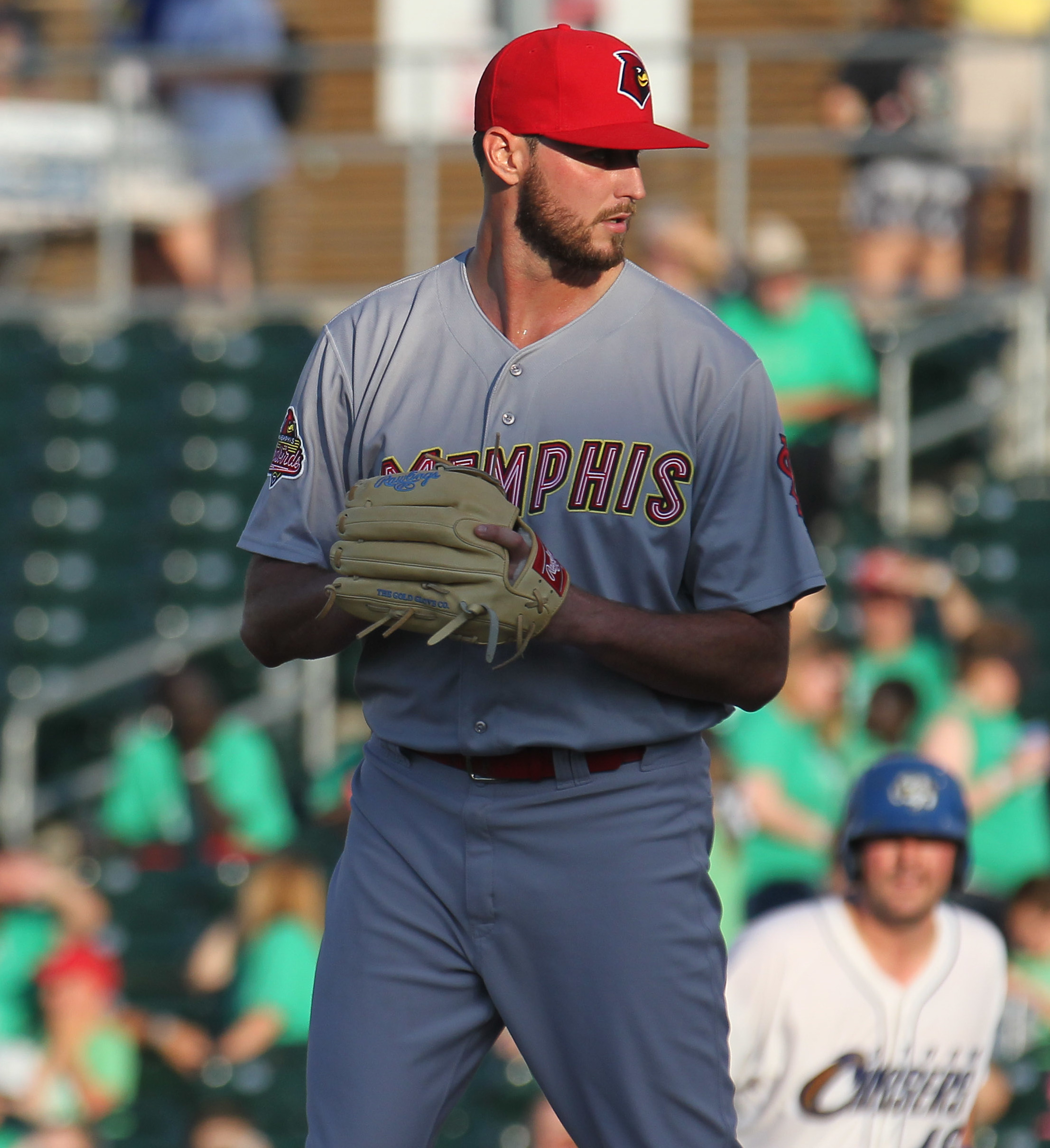 Chris Ellis on the mound for the Memphis Redbirds during a 2018 game at Werner Park in Omaha